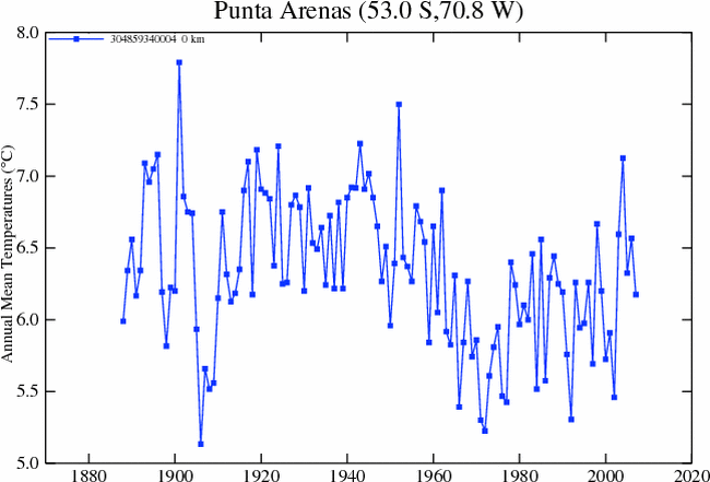 Graph of 1888-2007 air average temperature of Airport of Punta Arenas, Chile